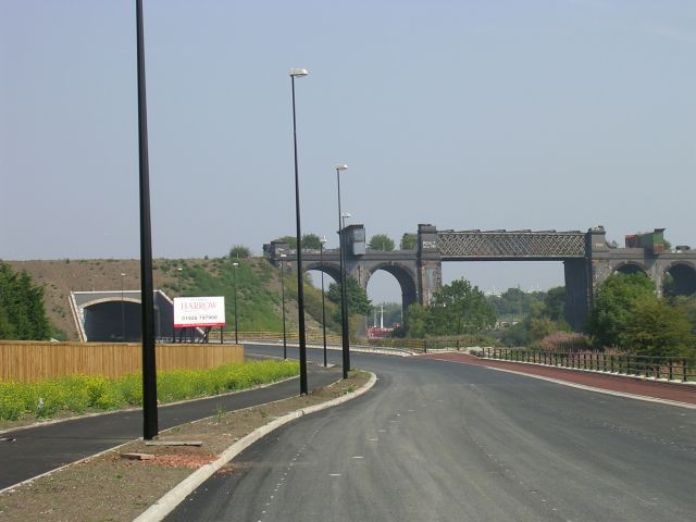 Not on the map yet! Looking northeastwards along the newly constructed Cadishead Way (Phase II). Phase One by-passed Irlam and carried the A57 away from the town by the banks of the Manchester Ship Canal. This section extends the road, by-passing Cadishead and rejoining the "old road" on the Cheshire border with Salford by the River Glaze. The large bridge used to carry a railway line which has been dismantled and is blocked using containers to prevent people using it as a crossing! The new tunnel for the road was constructed by removing the embankment inserting the tunnel structure then backfilling. Perhaps the rails will return one day! SJ71269191